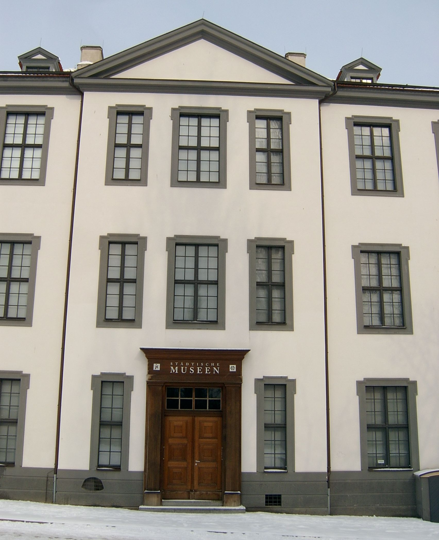 Entrance of the historical museum in Frankfurt (Oder), Germany.